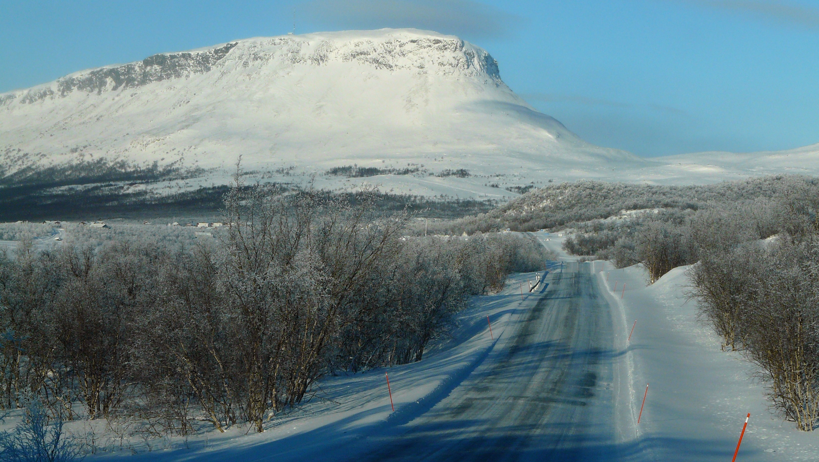 A northward view to Finnish national road 21 (E8) by Ala-Kilpisjärvi in 2009 February.